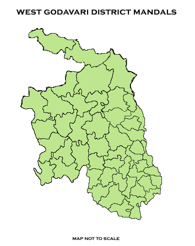 West Godavari district mandals outline map